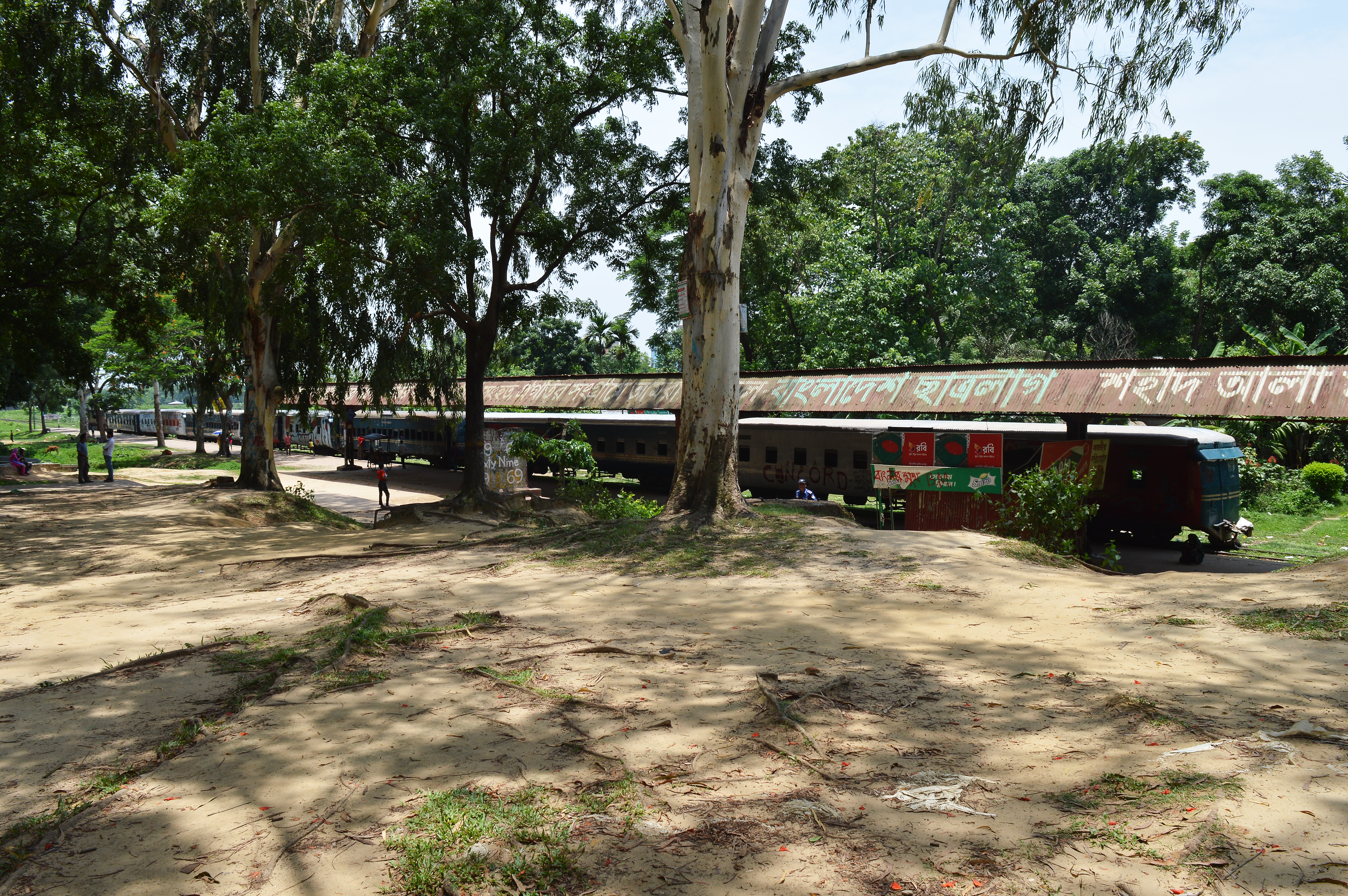 Chittagong University Shuttle train